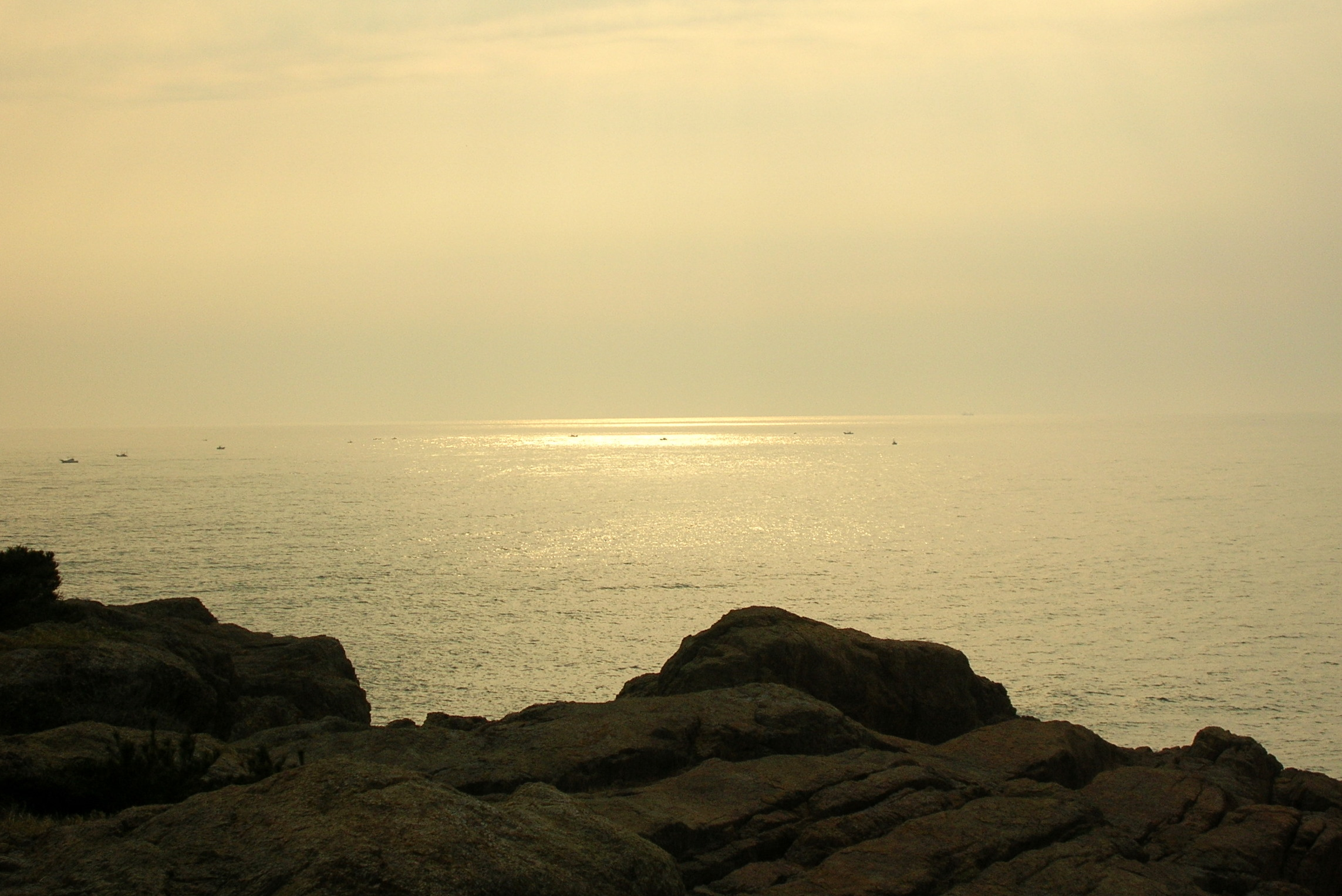 Sea of Japan, Hinomisaki, Shimane Prefecture, Japan